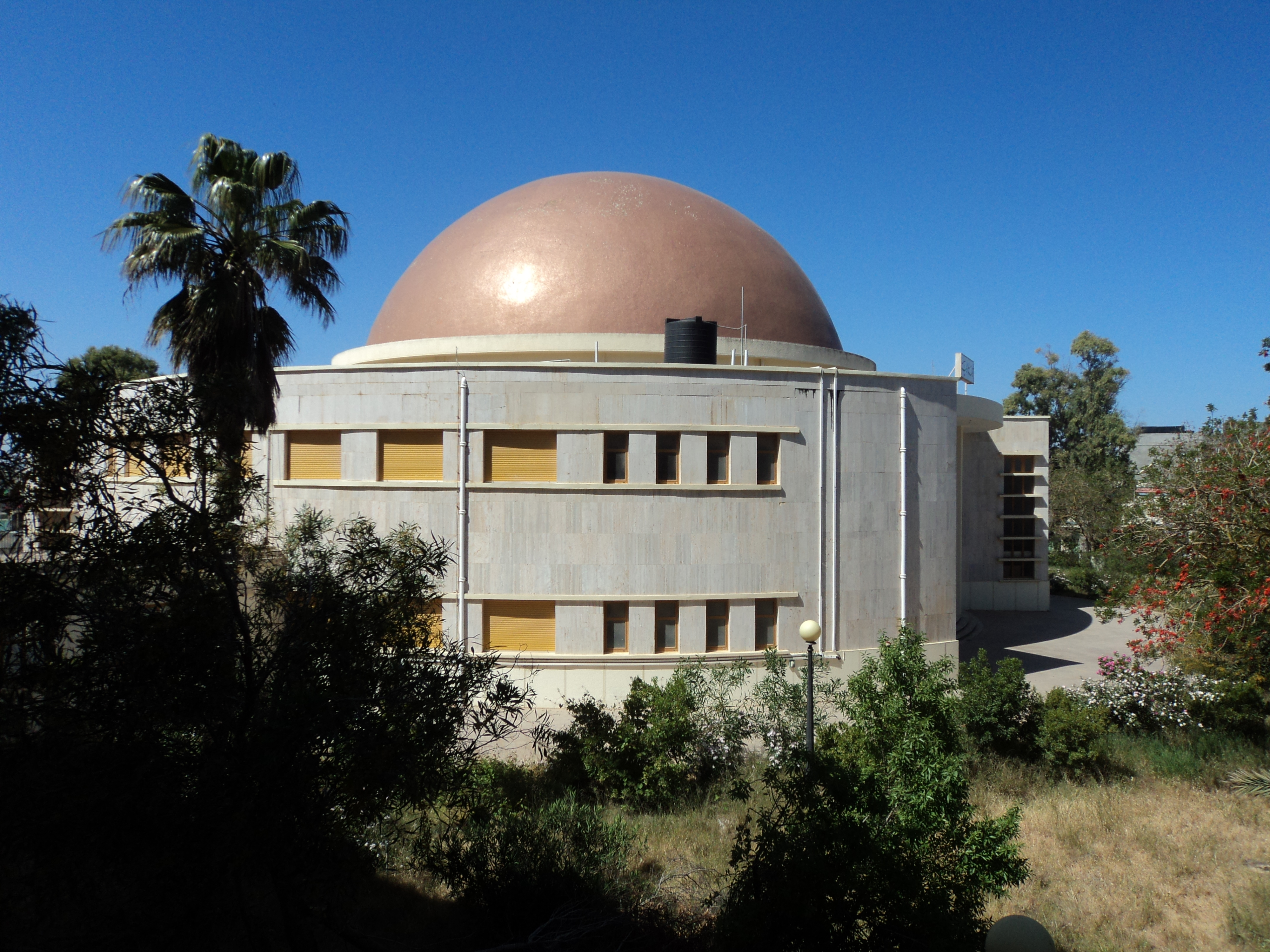 Former Libyan Parliament Hall - in the northeastern city of Al Bayda, Libya.